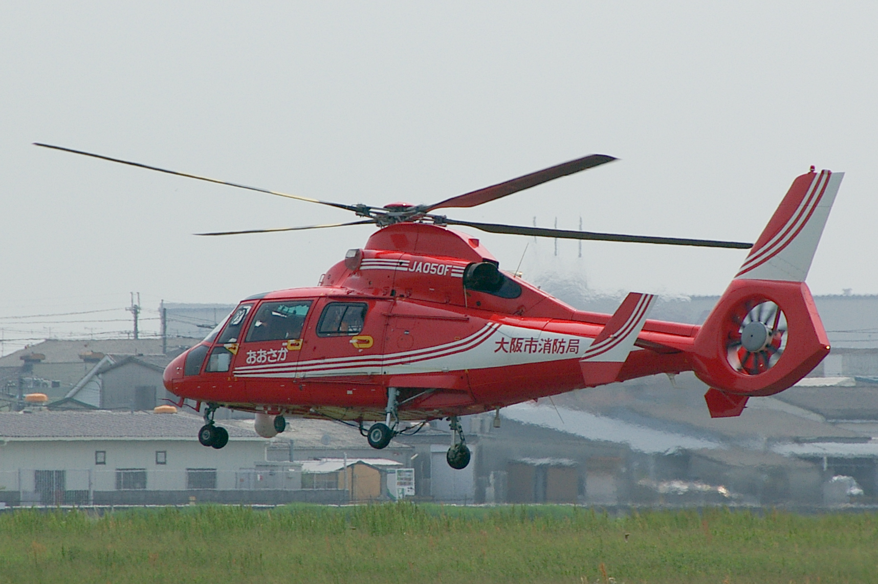 Photograph of Osaka Municipal Fire Department's Eurocopter AS365N3 (JA050F, Osaka), taking off from Yao Airport, taken at Osaka Prefectural Central Wide-area Disaster Prevention Base, Yao, Osaka Prefecture, Japan.